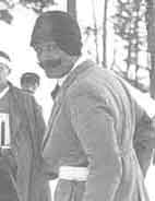 Ottorino Mezzalama (1888-1931), italian pioneer of military skimountaineering